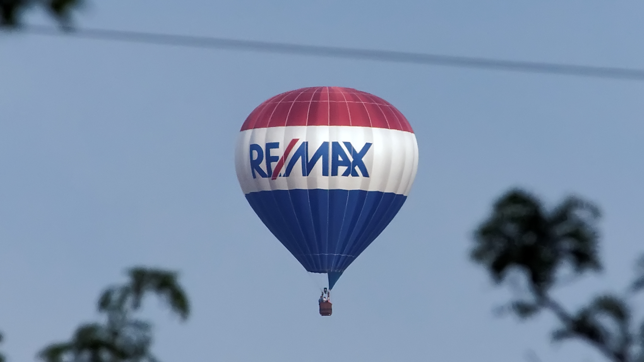 Spotted over the downtown Akron area.